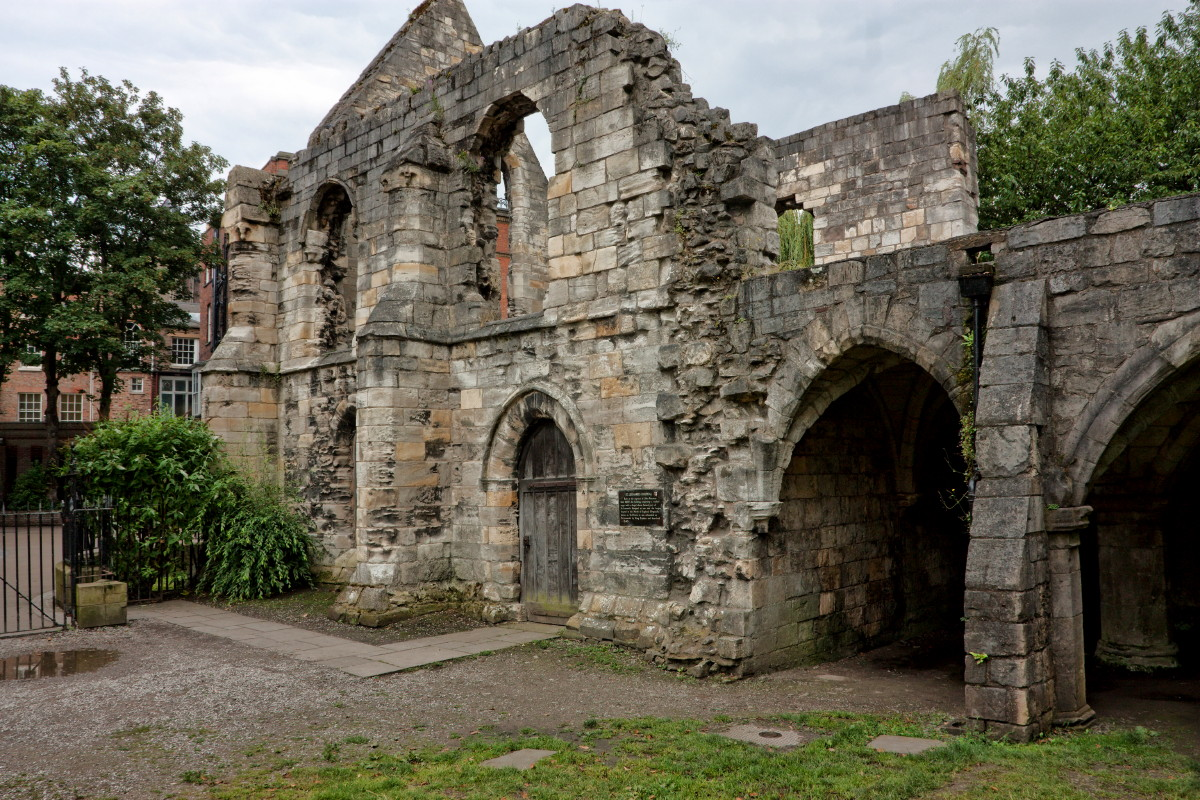 Remains of St Leonards Hospital, York